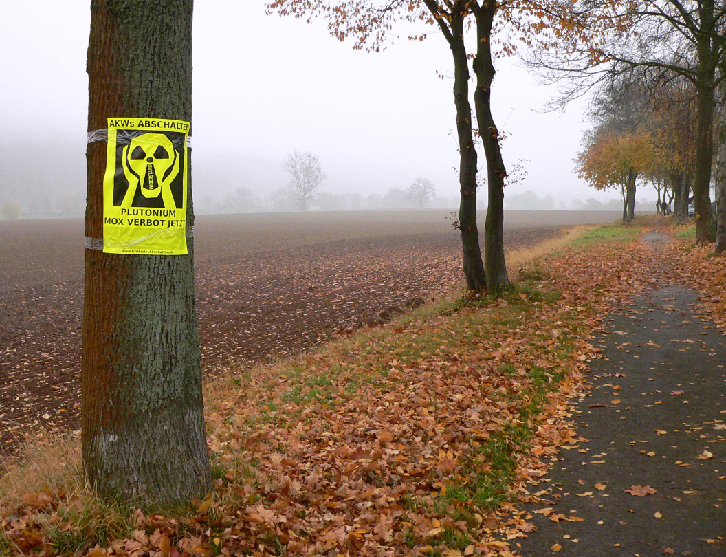 Plakat an Straßenbaum nahe dem Kernkraftwerk Grohnde gegen einen MOX-Transport